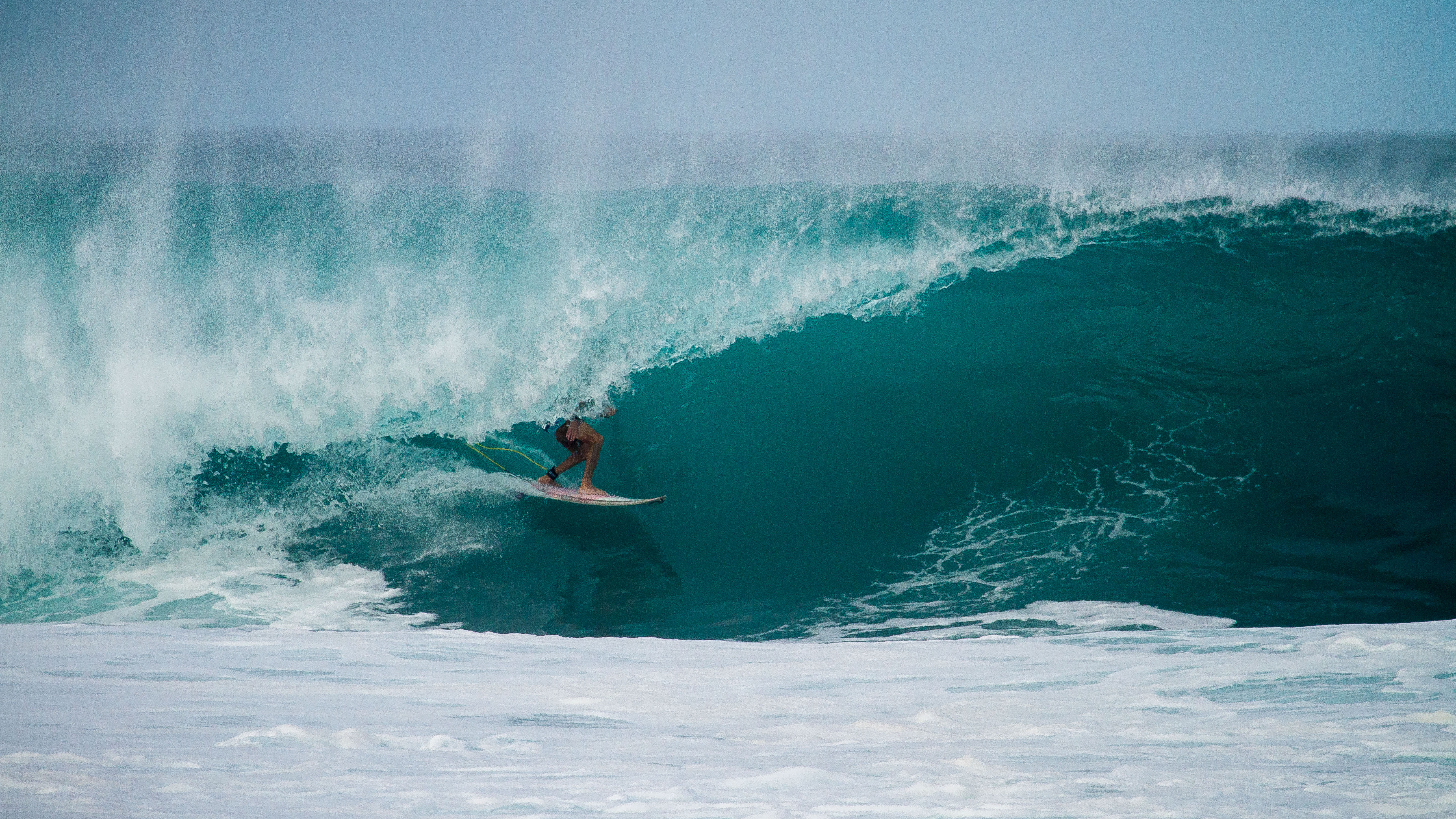 Sunset Beach, Pupukea, United States